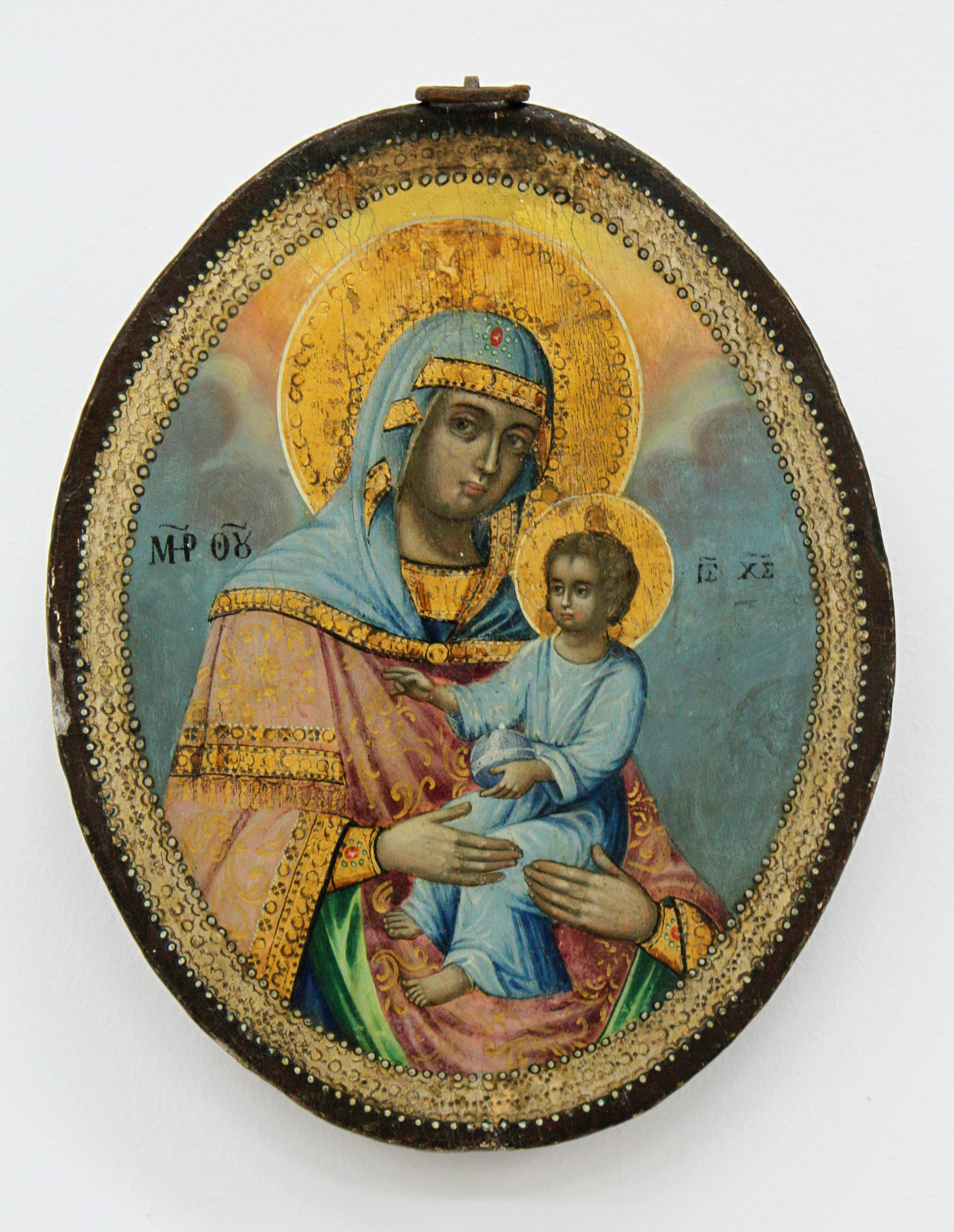 Historic Museum Ivailovgrad, Bulgaria